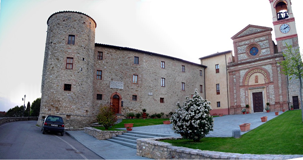 Castle of San Mariano, Corciano, Perugia, Umbria, Italy